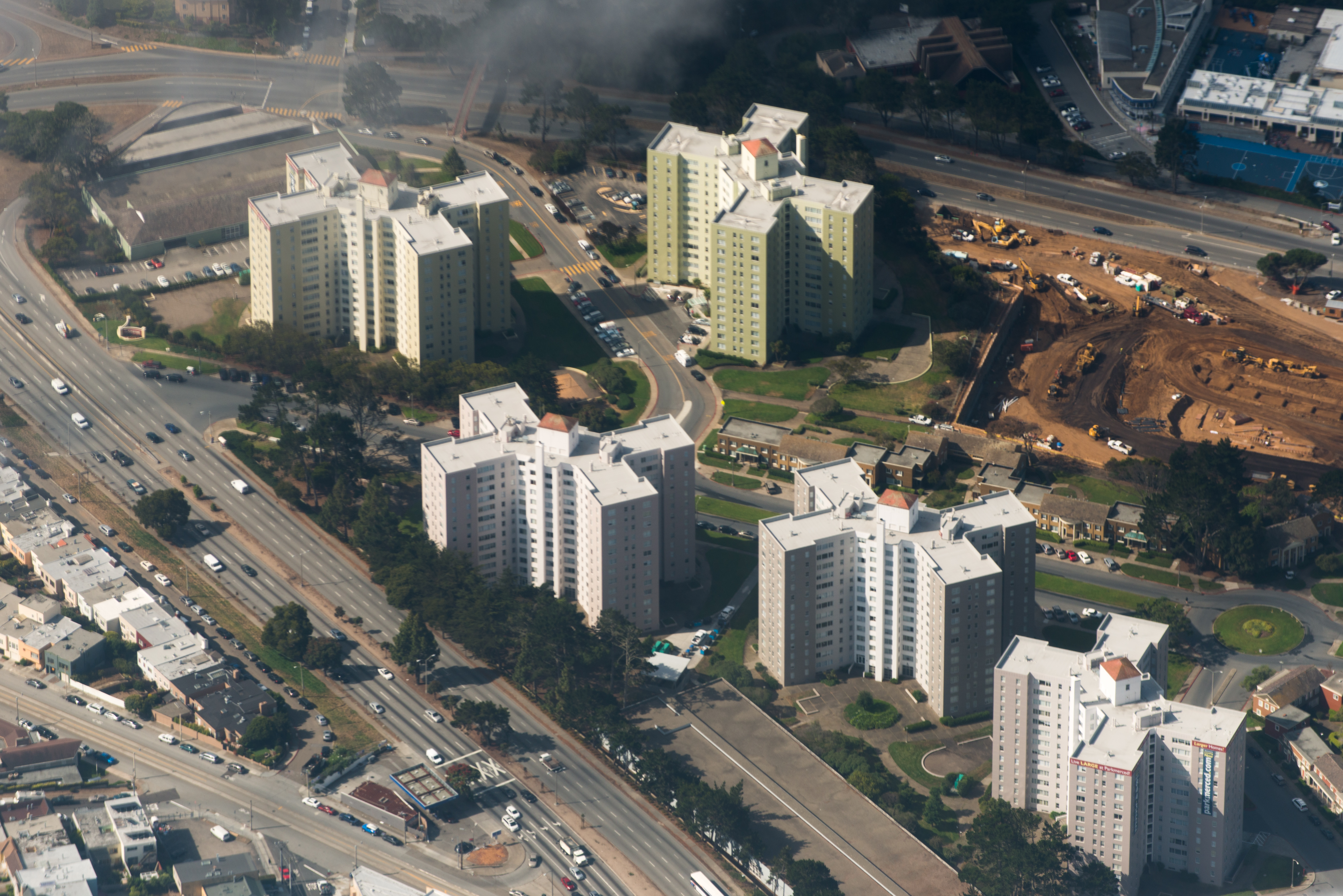 These X-shaped or cross-shaped buildings in western San Francisco are five among eleven, the easternmost on the property. Viewed from the north looking south. Highway on left is Route 1 (Junipero Serra Blvd).